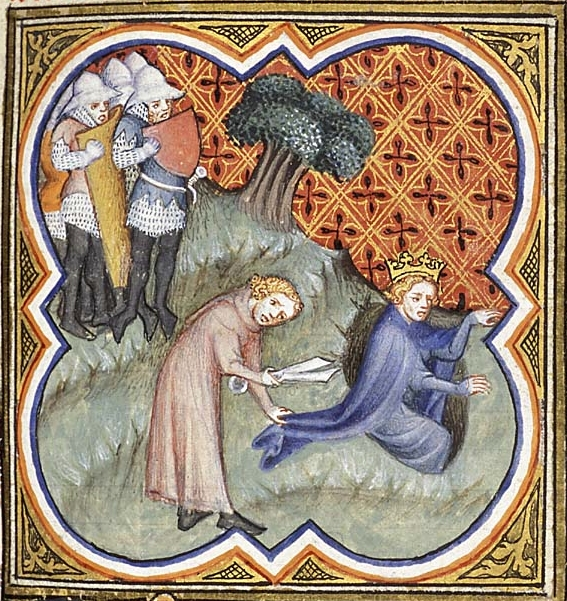 Den Haag, MMW, 10 B 23 138r Handschriften: Den Haag, MMW, 10 B 23 Iconclass Themas: 71H234 David cuts off a piece of Saul's robe Koningen 1 (1 Samuël) David snijdt een stuk van de mantel van Saul Afmeting: 72x69 mm France, 1372 Date: 1372 Technique: Miniature Location: Museum Meermanno Westreenianum, The Hague Notes: From Petrus Comestor's "Bible Historiale" (manuscript "Den Haag, MMW, 10 B 23") Subject: Saul's Life Spared